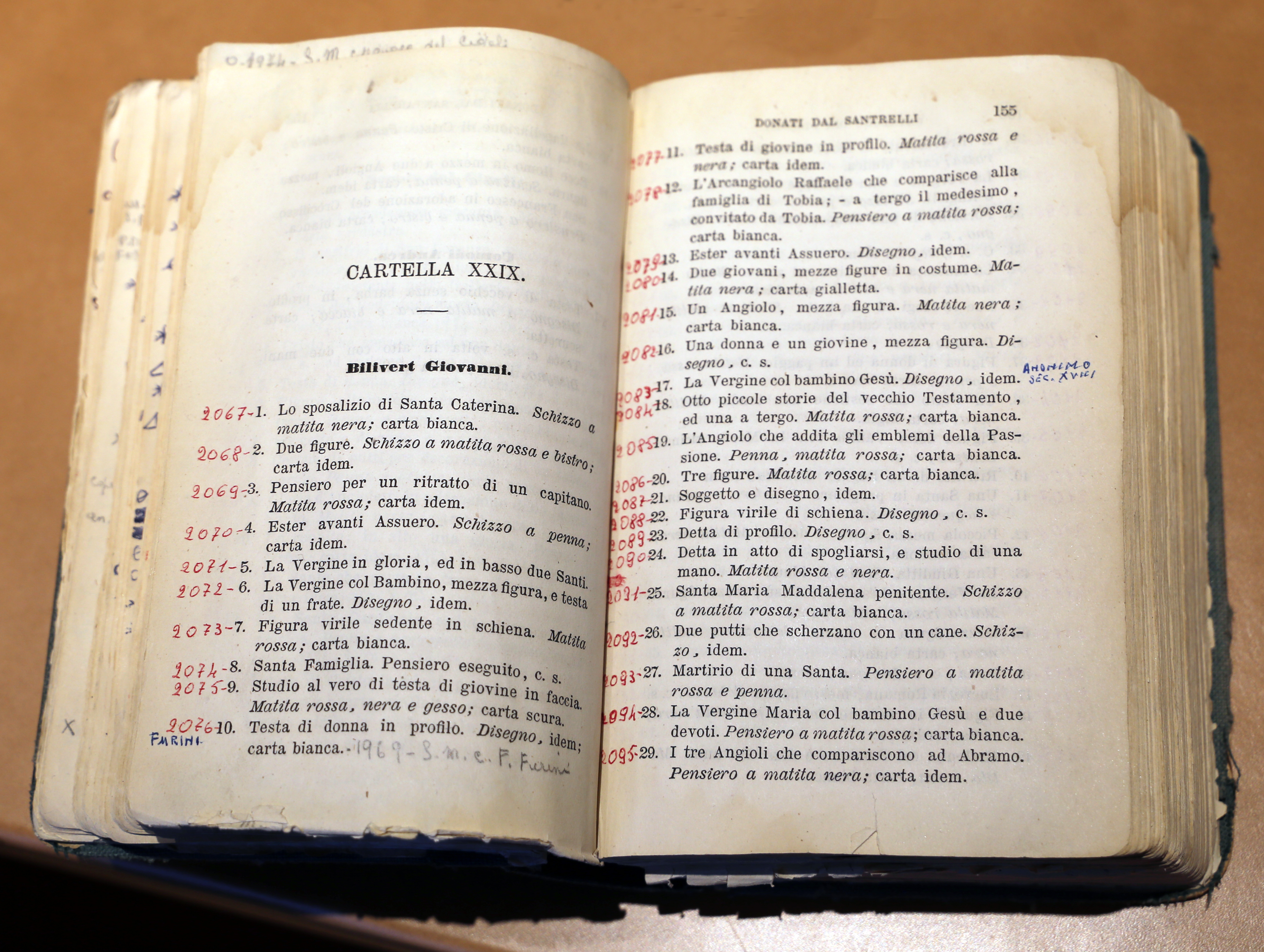 Gabinetto dei Disegni e delle Stampe